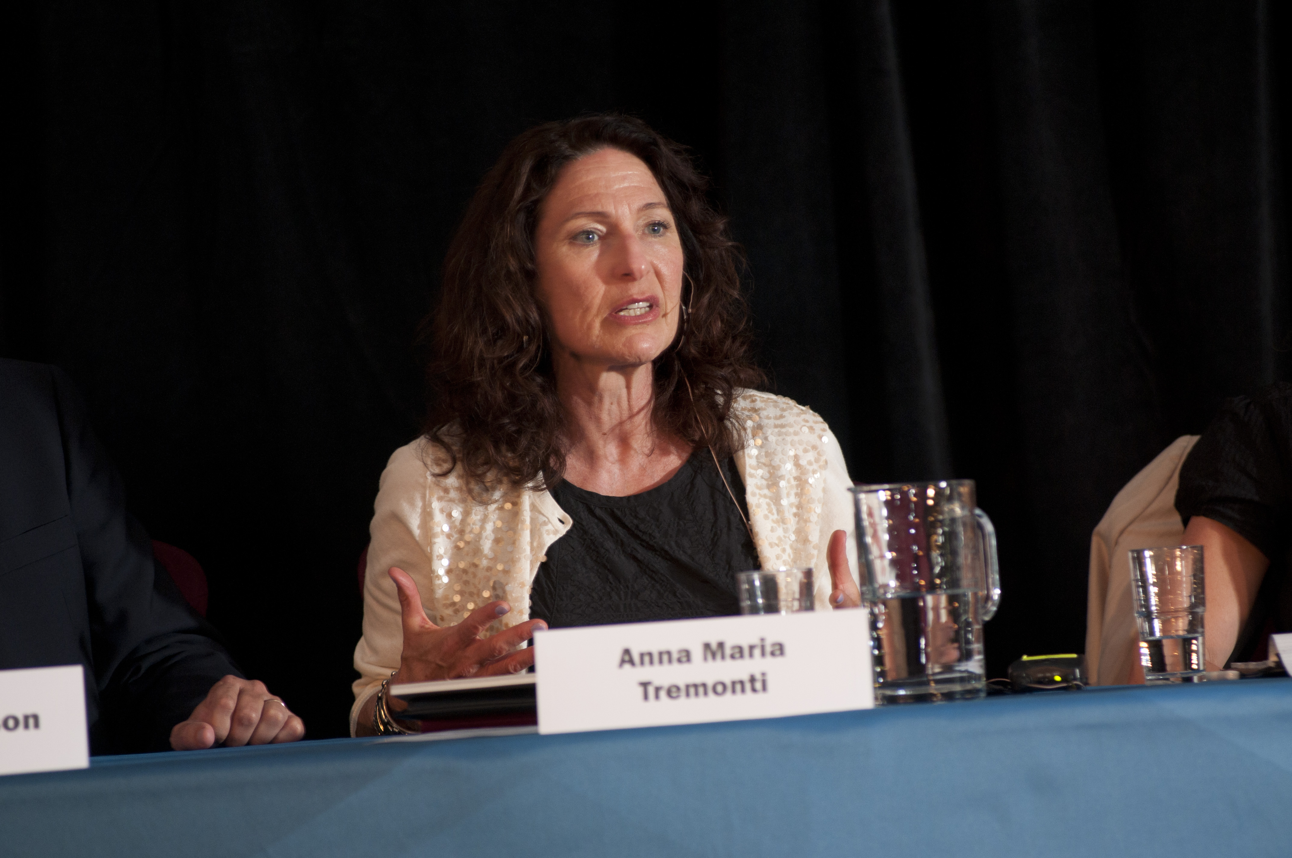 Anna Maria Tremonti, host of CBC Radio's The Current, makes a point at Muzzled Media -- The Global Challenge. The media panel event was held at CIGI June 21, 2011 (Lisa Malleck/CIGI photo).